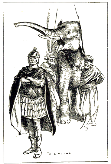 Stories from Ancient Rome by Alfred J. Church.